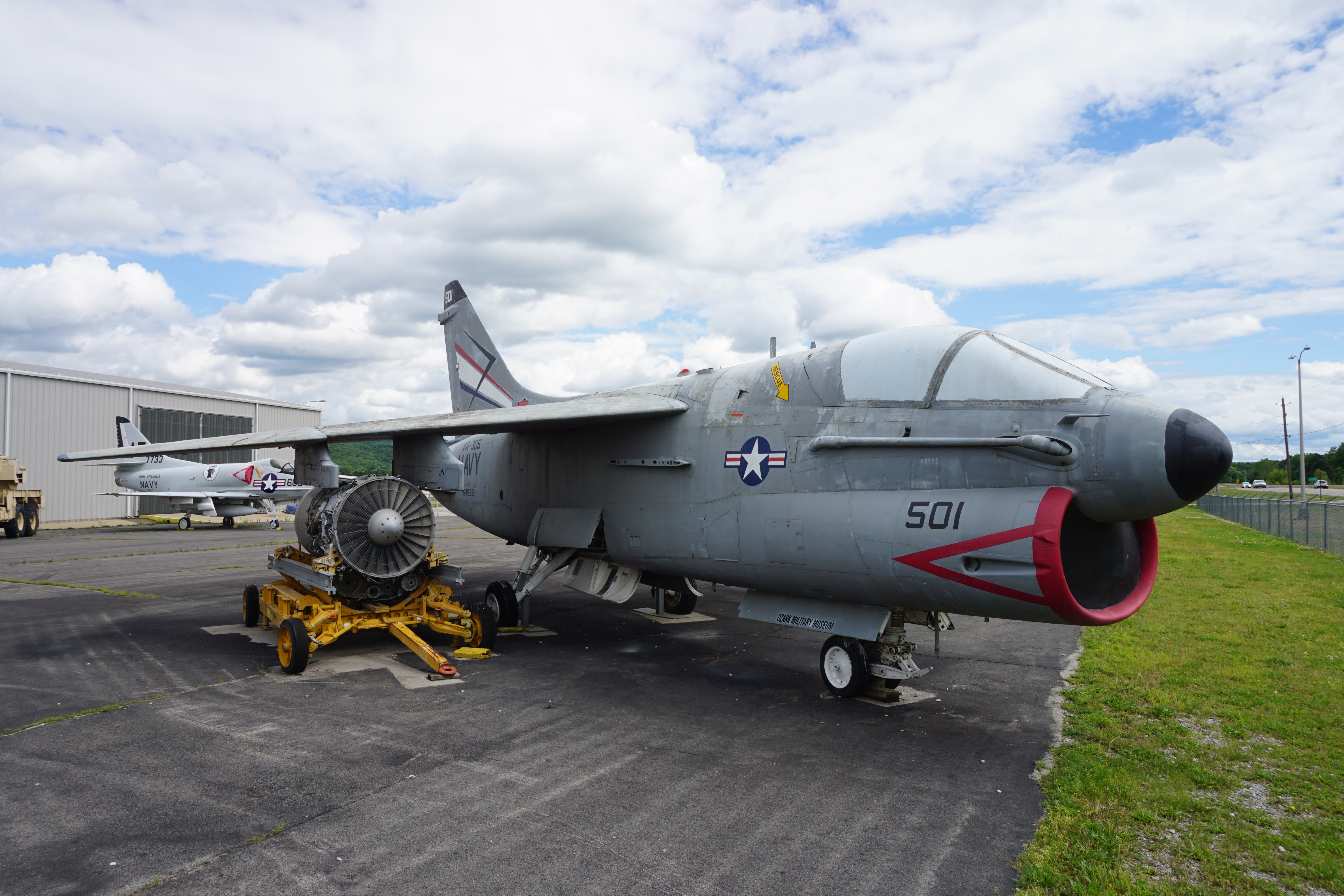 An LTV A-7B Corsair II at the Arkansas Air & Military Museum in Fayetteville, Arkansas (United States).